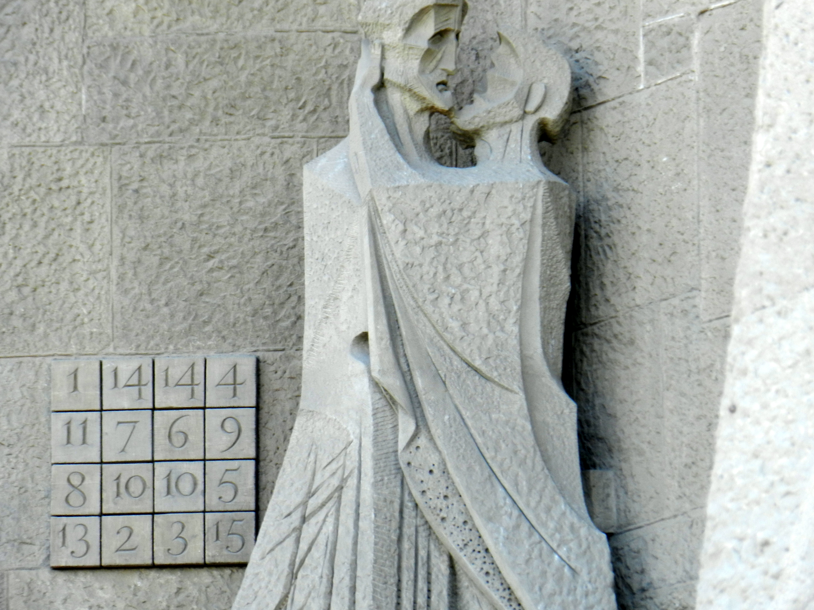 Magic Square, Sagrada Familia, Barcelona